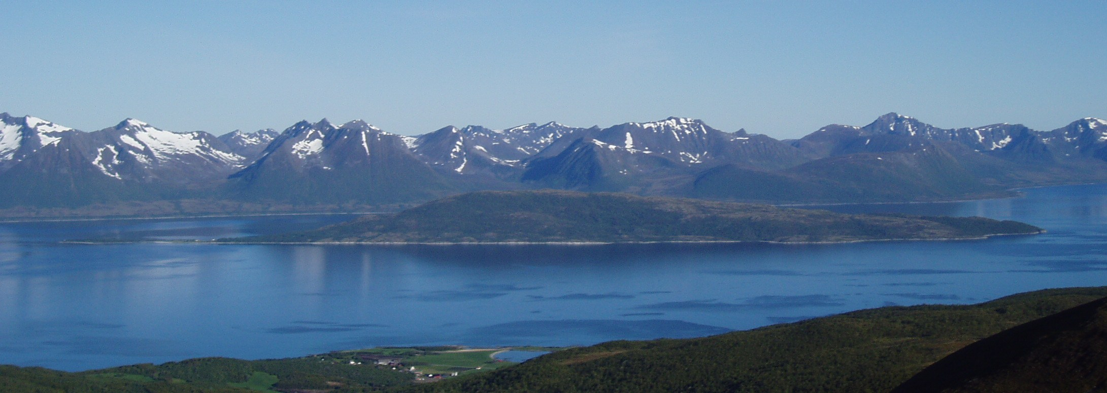 The island Gapøy in Kvæfjord, Troms, Norway